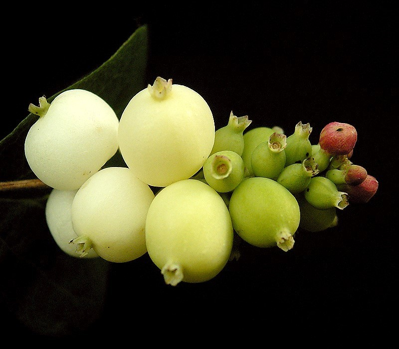 Symphoricarpos albus